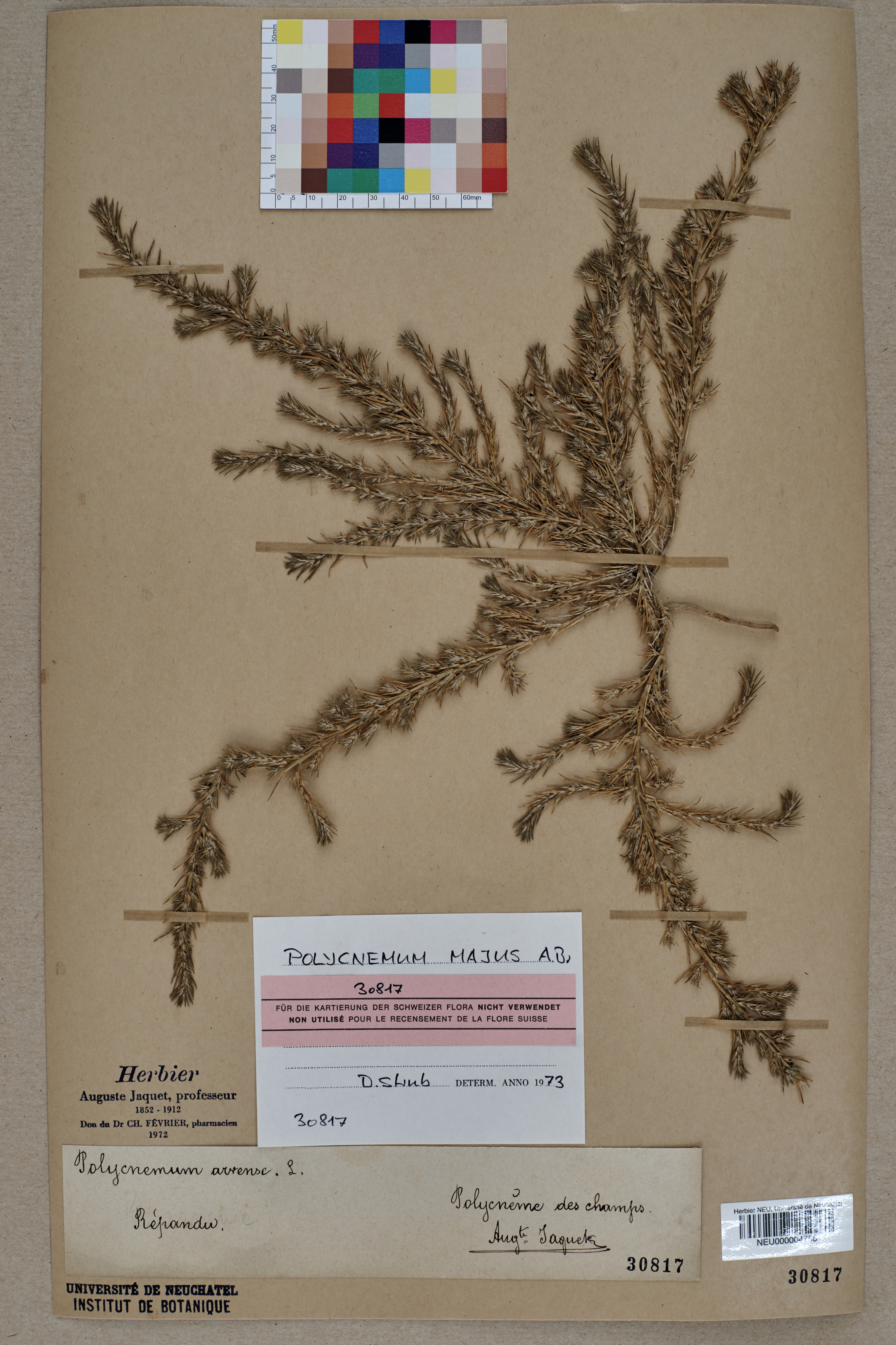 Dried pressed specimen of Polycnemum majus